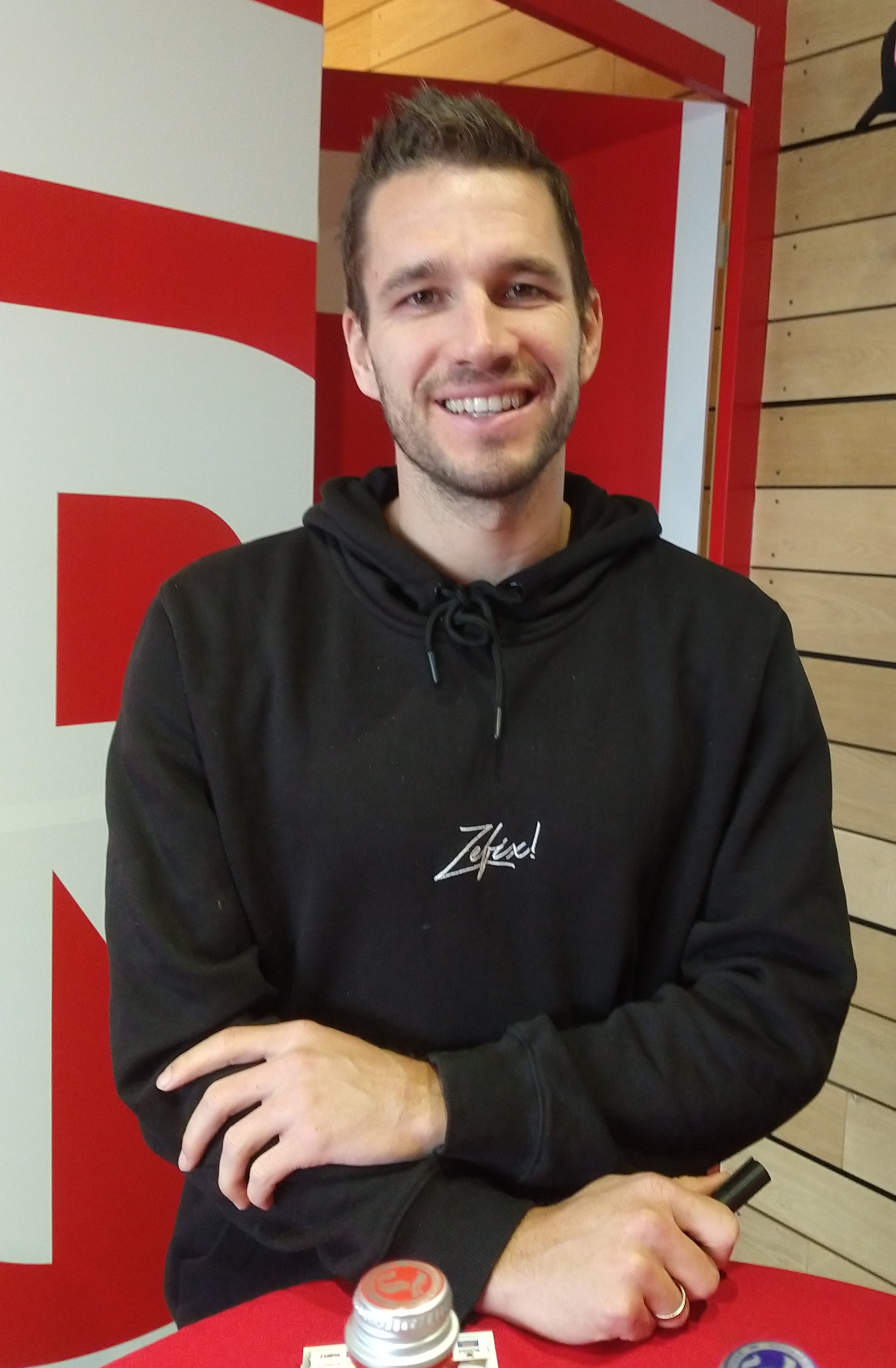 Football player Marco Grüttner on 11 December 2019 in the Jahn fan shop in Regensburg